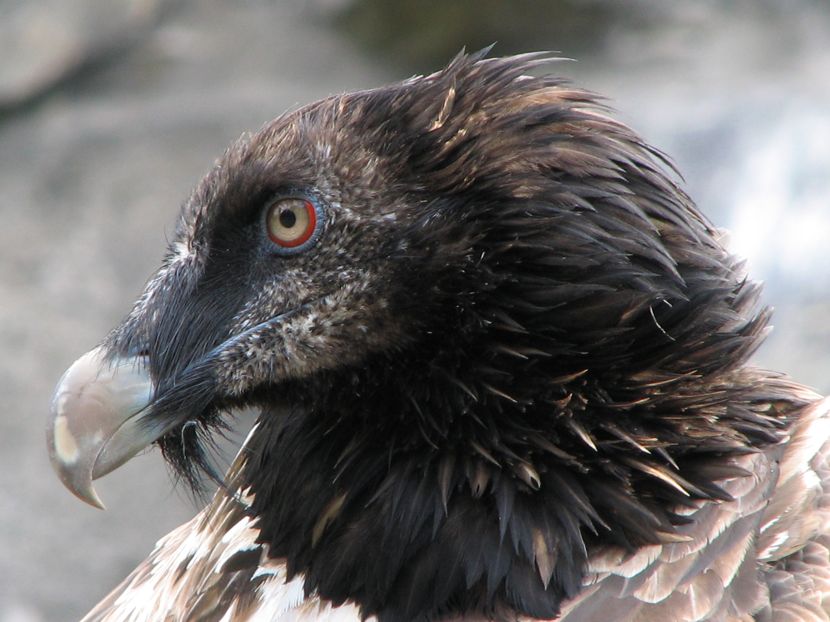 Juvenile bearded vulture (Gypaetus barbatus), Tierpark Berlin, Germany. Aragonés: Trencauesos choven, en o parque zoolochico de Berlín, Alemania.